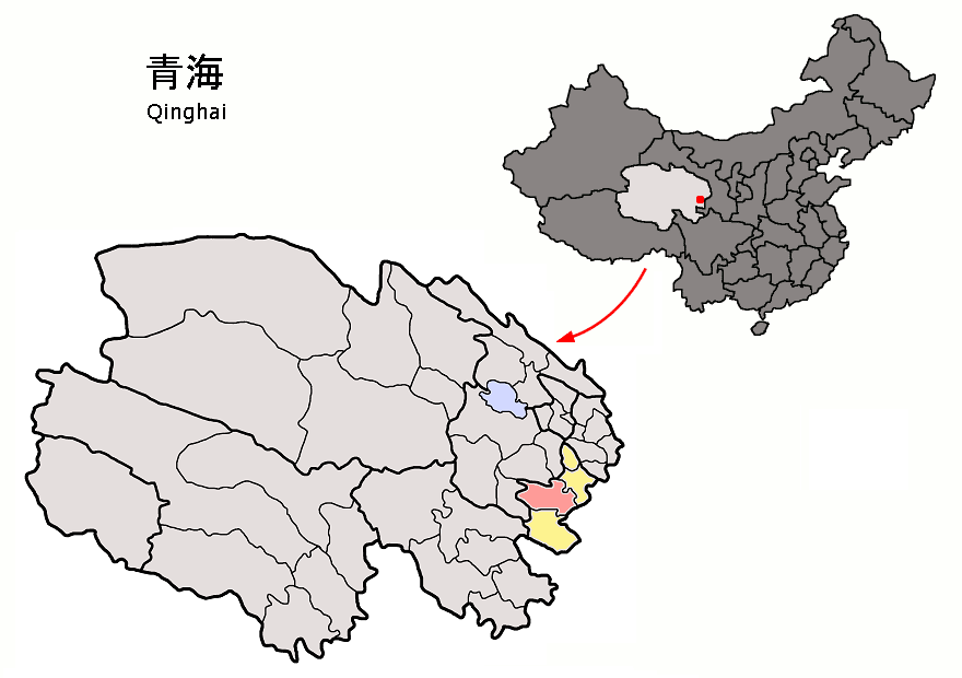 Location of Zêkog County (pink) and Huangnan Prefecture (yellow) within Qinghai province of China Map drawn in september 2007 using various sources, mainly : Qinghai province administrative regions GIS data: 1:1M, County level, 1990 Qinghai Counties map from "Plateau Perspectives" (the limits of some county-level subdivisions may not be accurate)